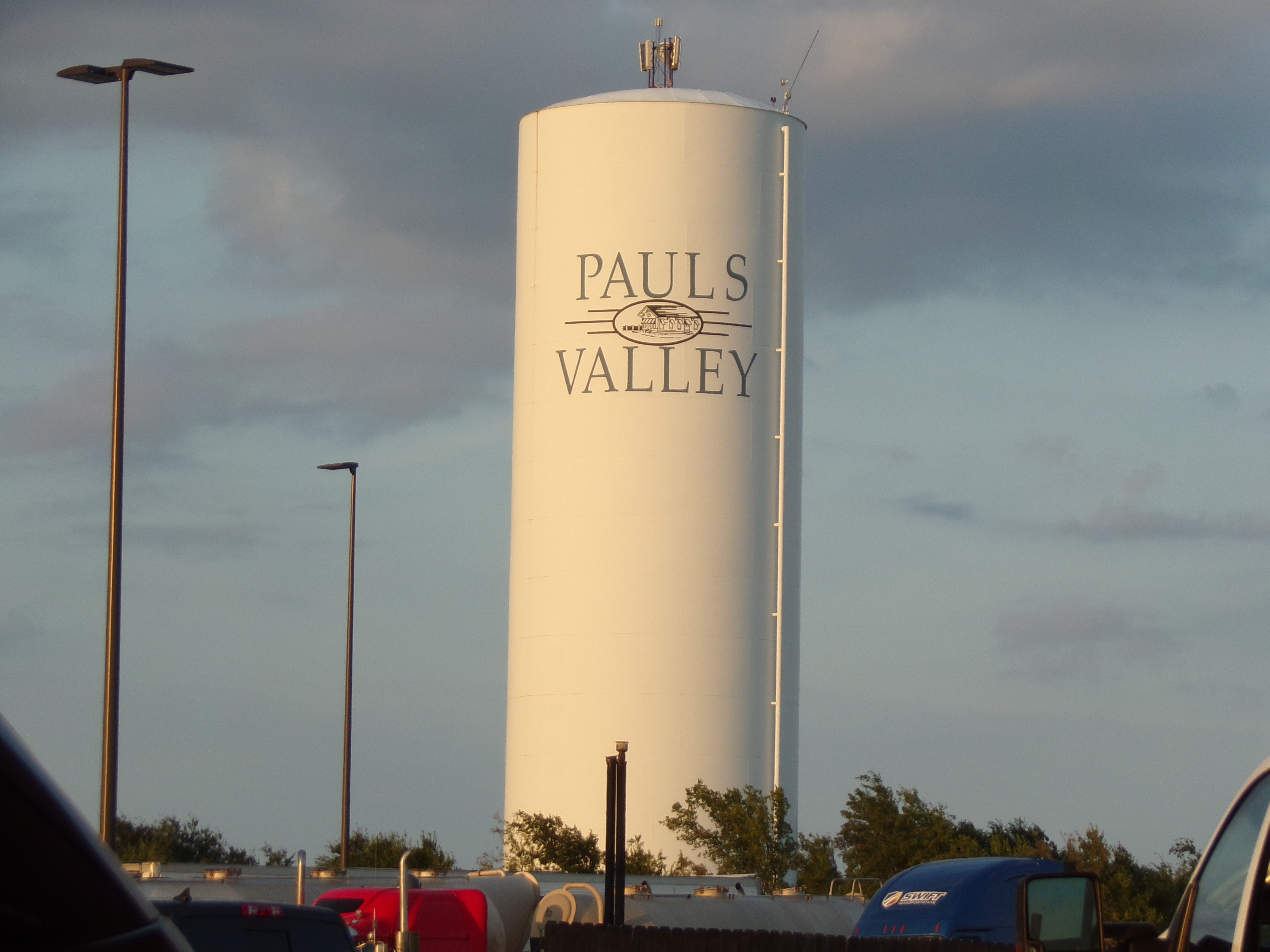 This is an image of a water tower in Pauls Valley, Oklahoma.